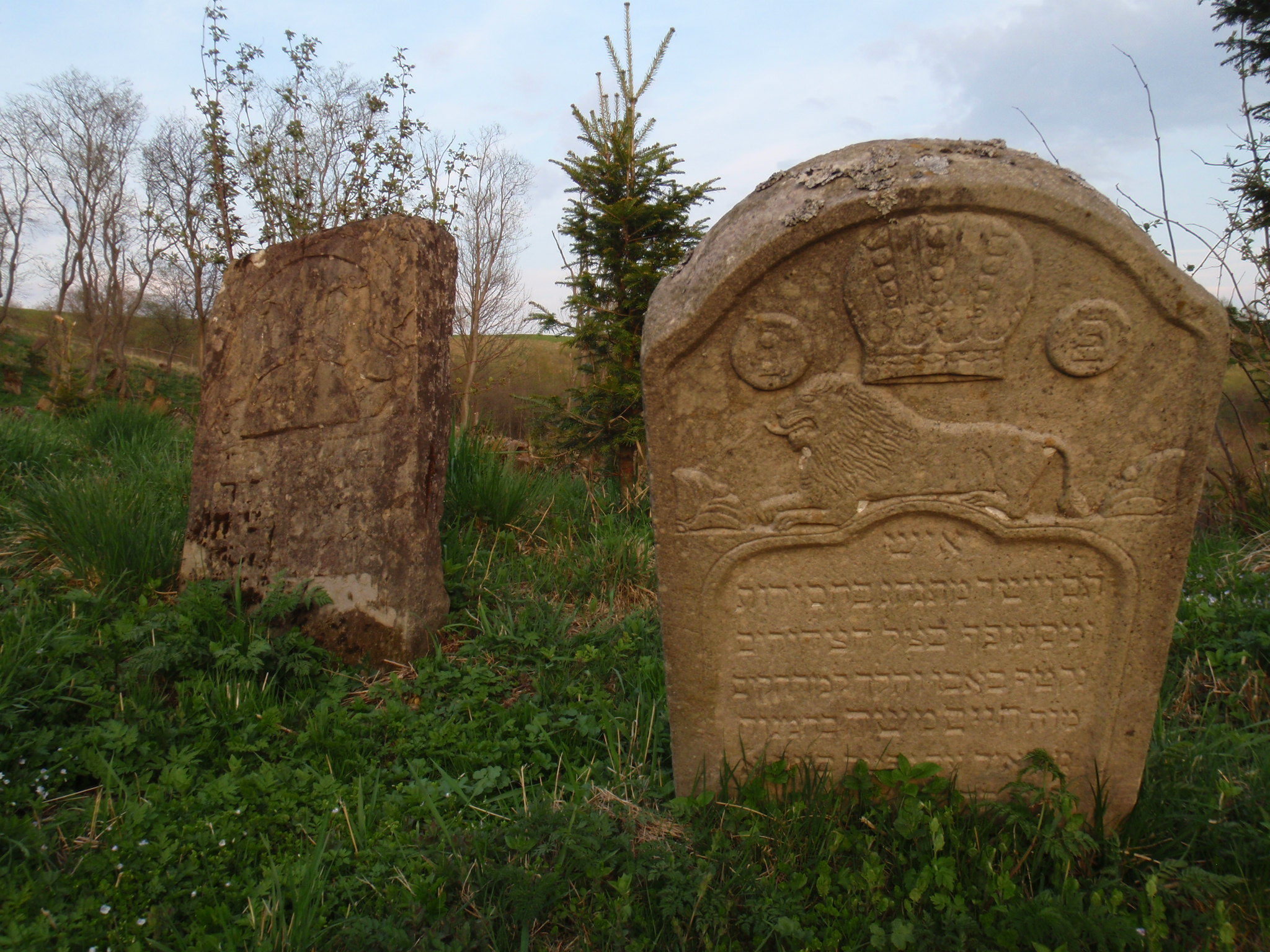 Lutowiska - jewish cemetery